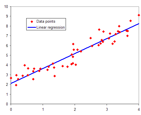 Regression line for 50 random points in a Gaussian distribution around the line y=1.5x+2 (not shown). The regression line (shown) that best fits these points is actually y=1.533858x+2.129333.